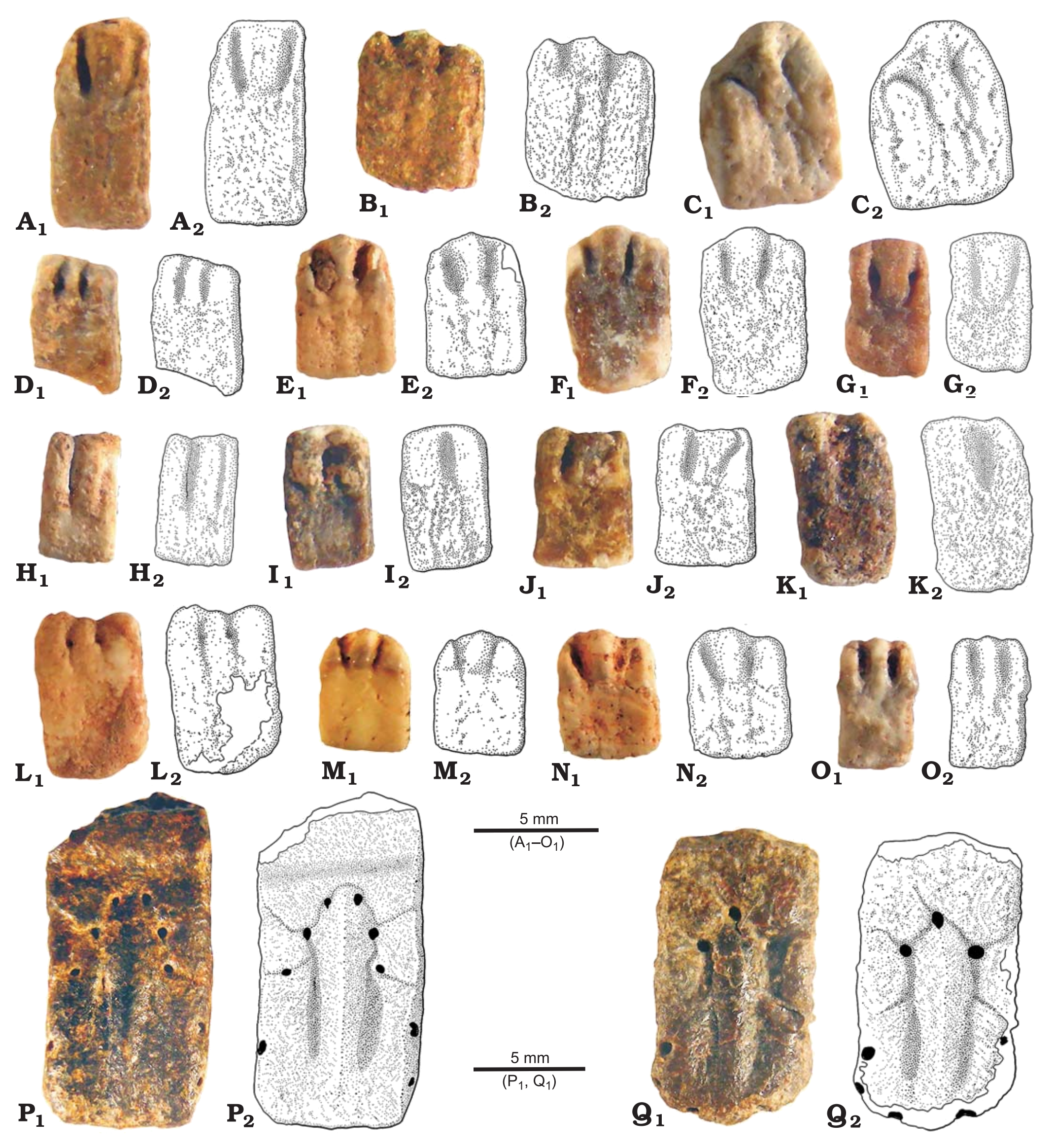 Osteoderms of Dasypodidae incertae sedis from the middle member of the Geste Formation, middle–late Eocene, Antofagastade la Sierra, Catamarca Province, Argentina: A–O - Pucatherium parvum, P-Q - Punatherium catamarquensis